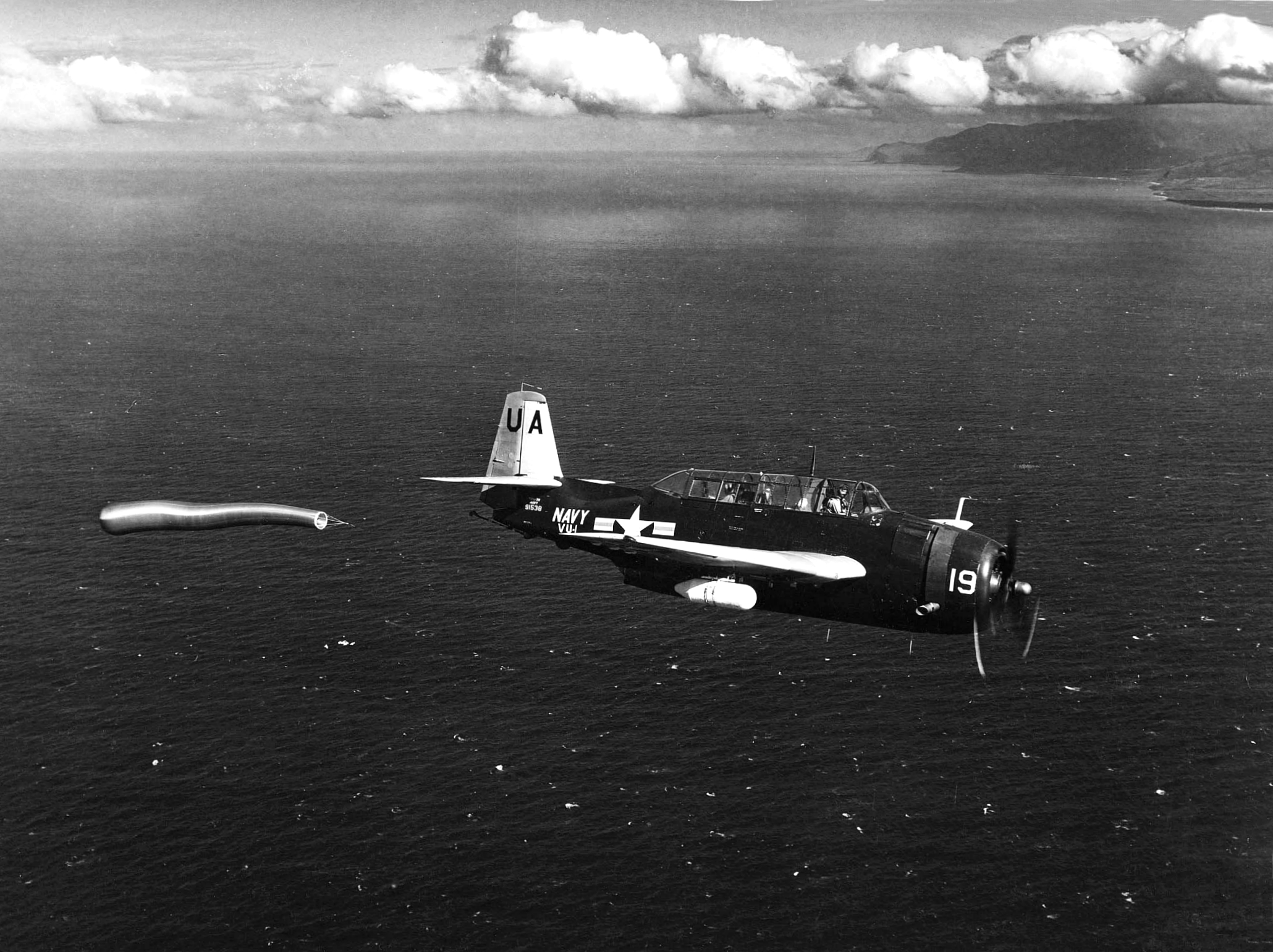 A U.S. Navy Grumman TBM-3U Avenger assigned to Utility Squadron 1 (VU-1) towing a gunnery sleeve in the vicinity of Hawaii. Avengers assigned to utility squadrons featured a colourful paint scheme that included yellow wings and tails.